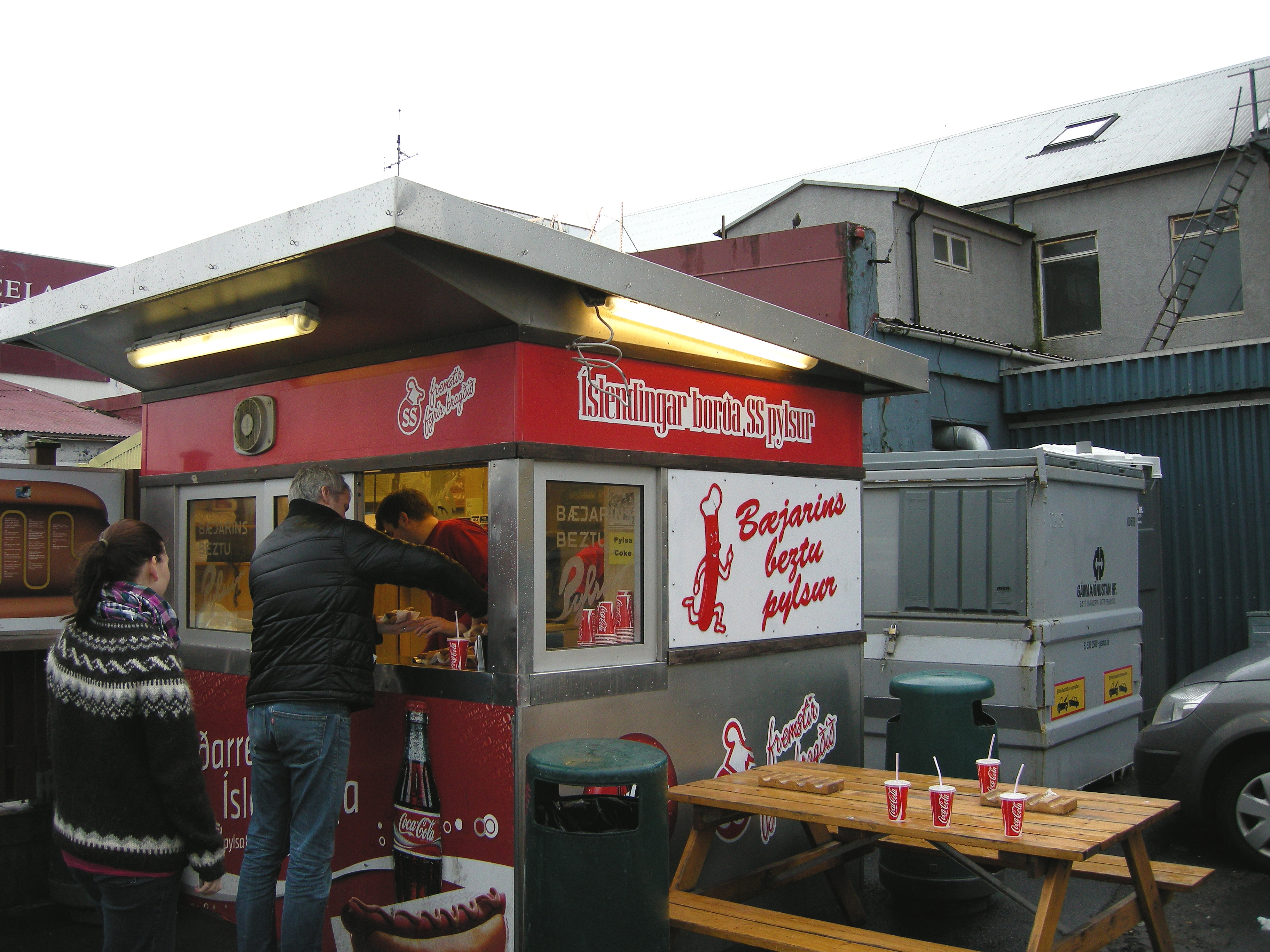 Fast food restaurant in Reykjavík